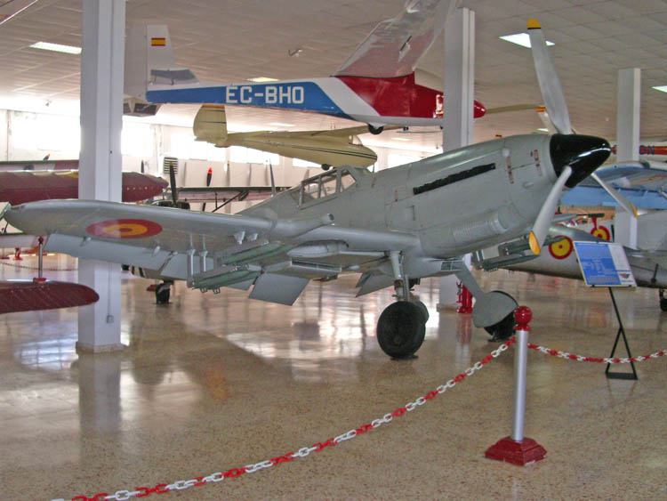 Ha-1112-K1L on display at the Museo del Aire, Madrid, Spain, 2010